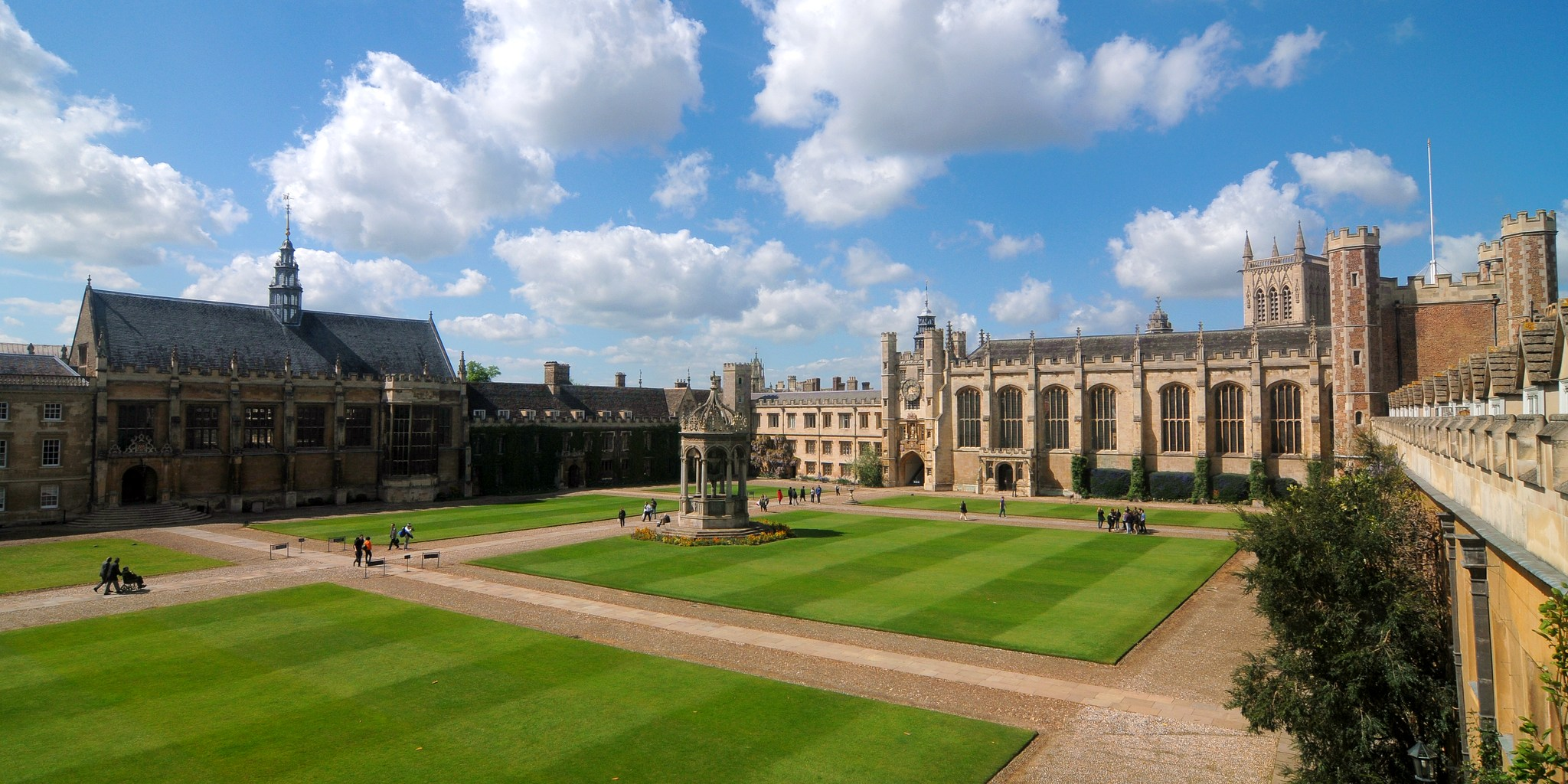 Cambridge University Trinity College Great Court with (from left to right) its dining hall, Master's Lodge, fountain, clock tower, chapel and Great Gate.